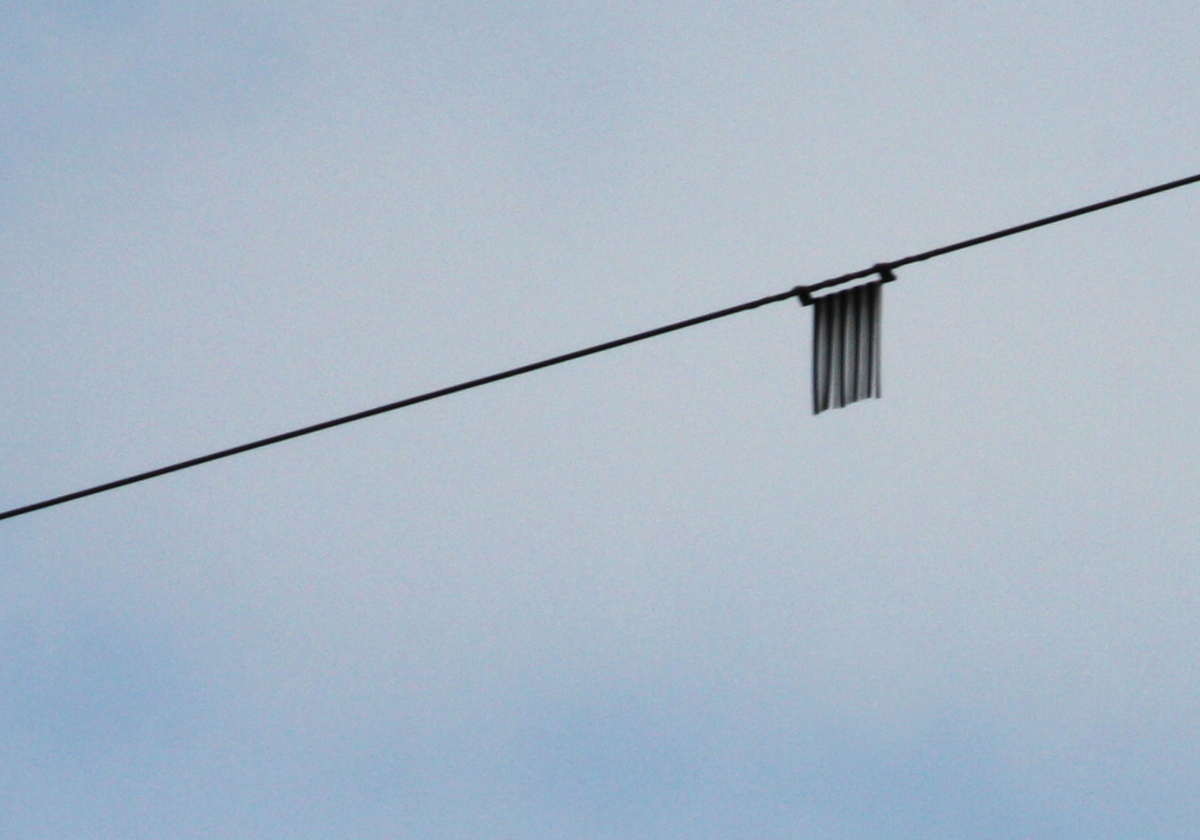 bird scares on power lines; Bird Protection on Power Lines